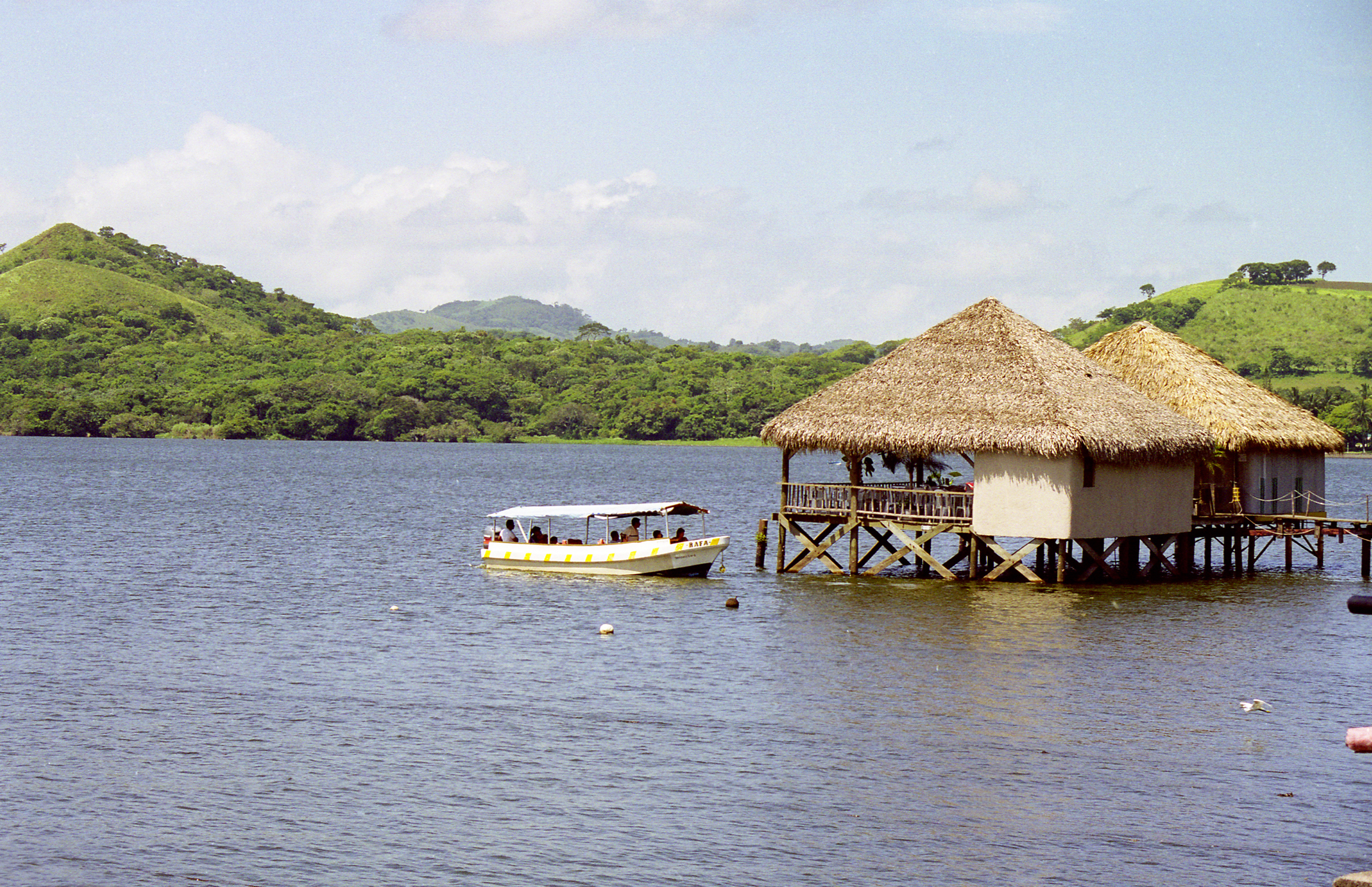 A hut in the river near Catemaco, Veracruz, Mexico